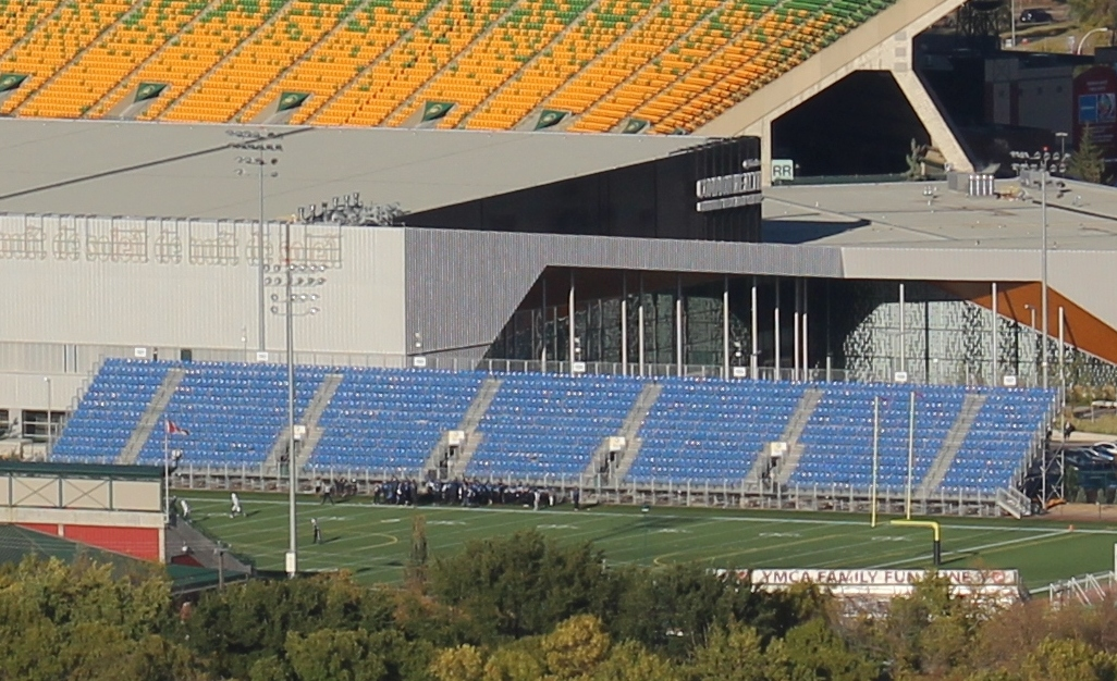 Clarke Field, home of FC Edmonton, a soccer team in Edmonton, Alberta, Canada